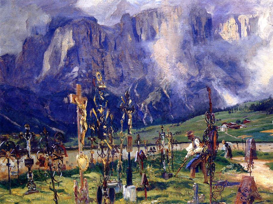 Graveyard in the Tyrol (1914-1915) by John Singer Sargent Private Collection